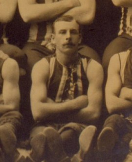 Photograph of Harry Dowdall in 1896.